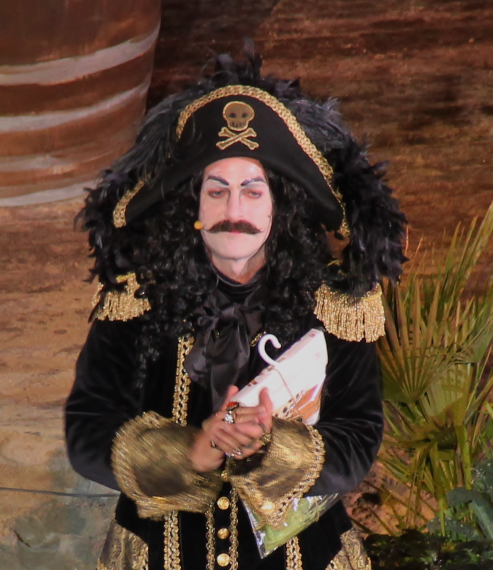 Kyrre Haugen Sydness as Captain Sabertooth in 2016